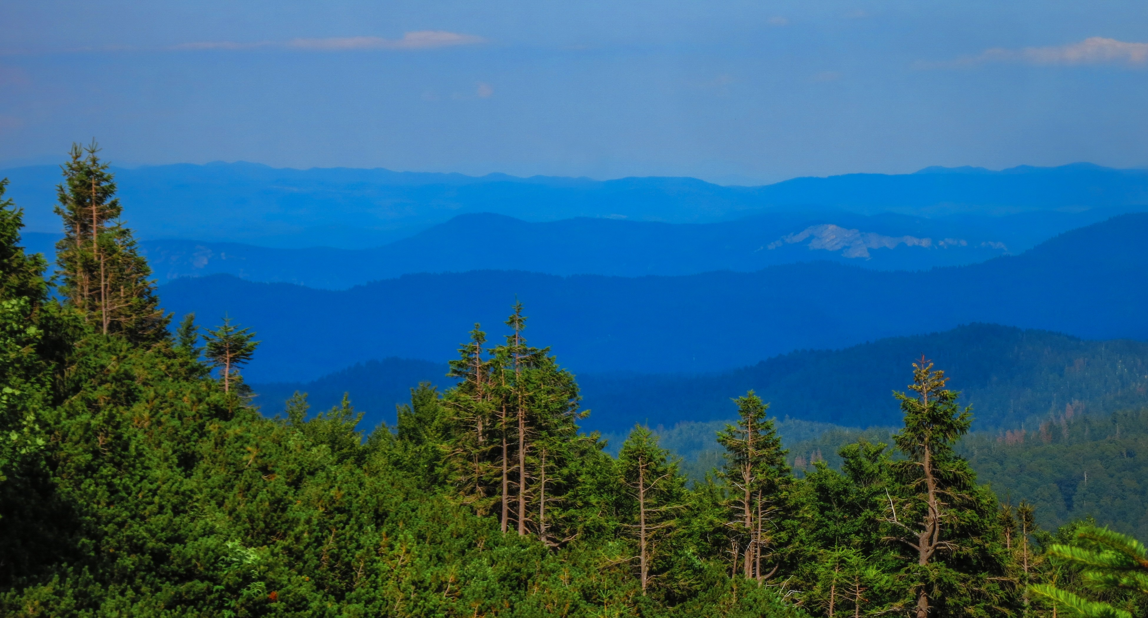 A view near summit of Veliki Risnjak (about 1500 m) to East. (Risnjak National Park, Primorje-Gorski Kotar County, Croatia)